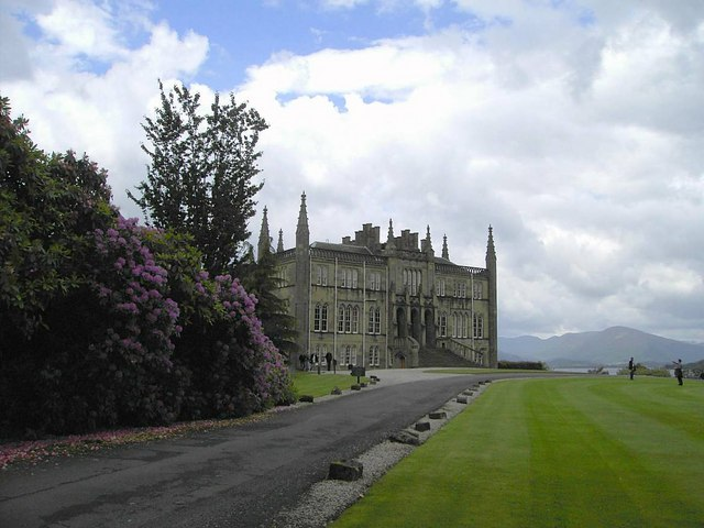 Ross Priory. Strathclyde University's recreation and education centre on the shores of Loch Lomond. Formerly the 17th century seat of the Buchanans of Ross on the site of a priory dating back to at least 1624. See Ross_Priory